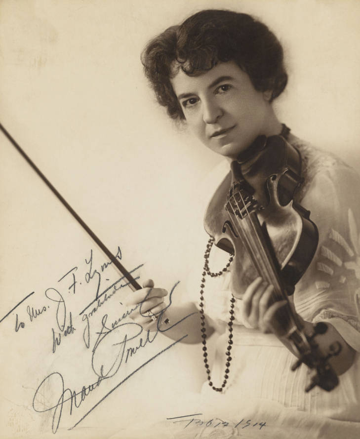 1914 publicity photo of violinist Maud Powell inscribed to Lucille Lyons of Fort Worth, Texas.